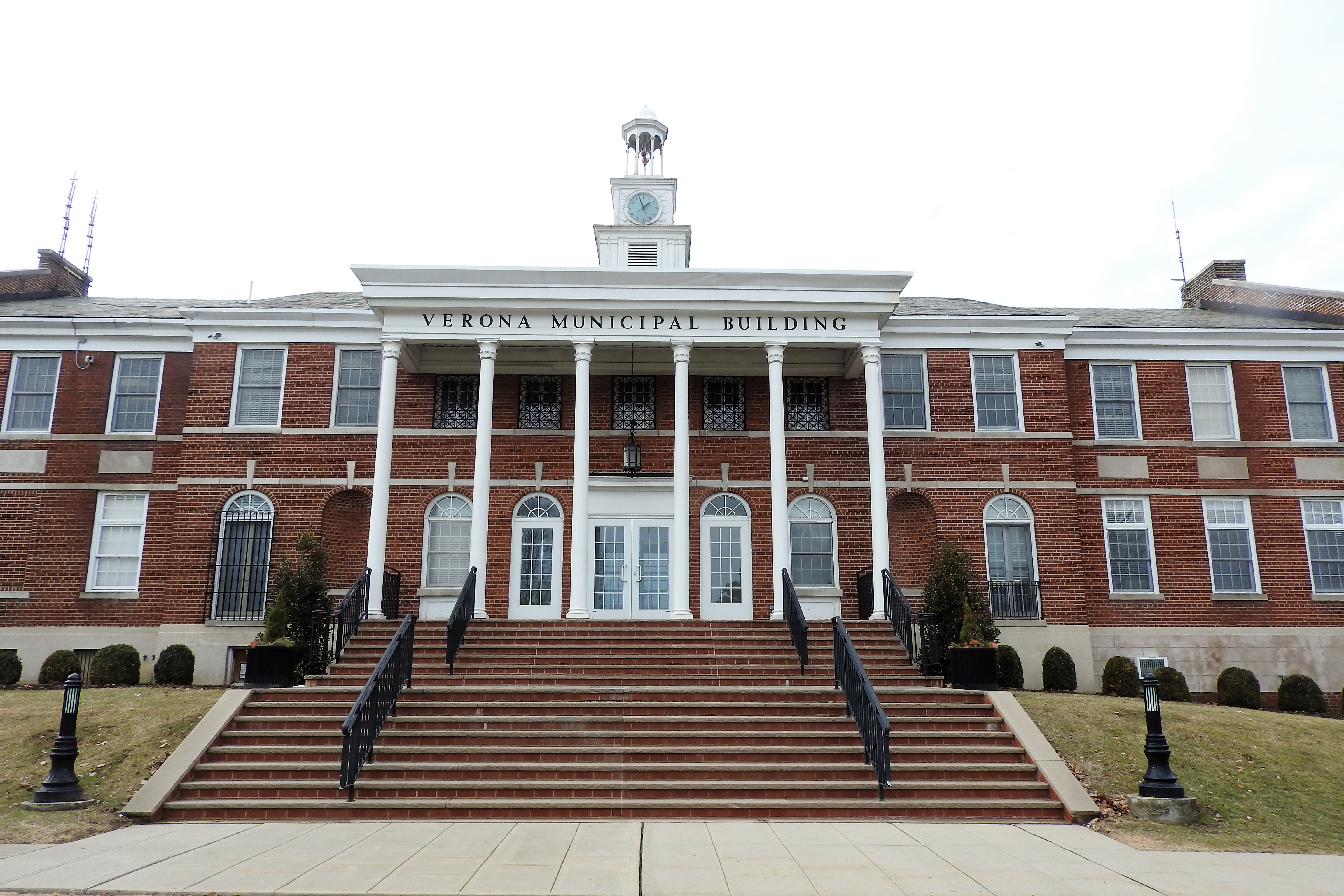 Looking west at Verona City Hall